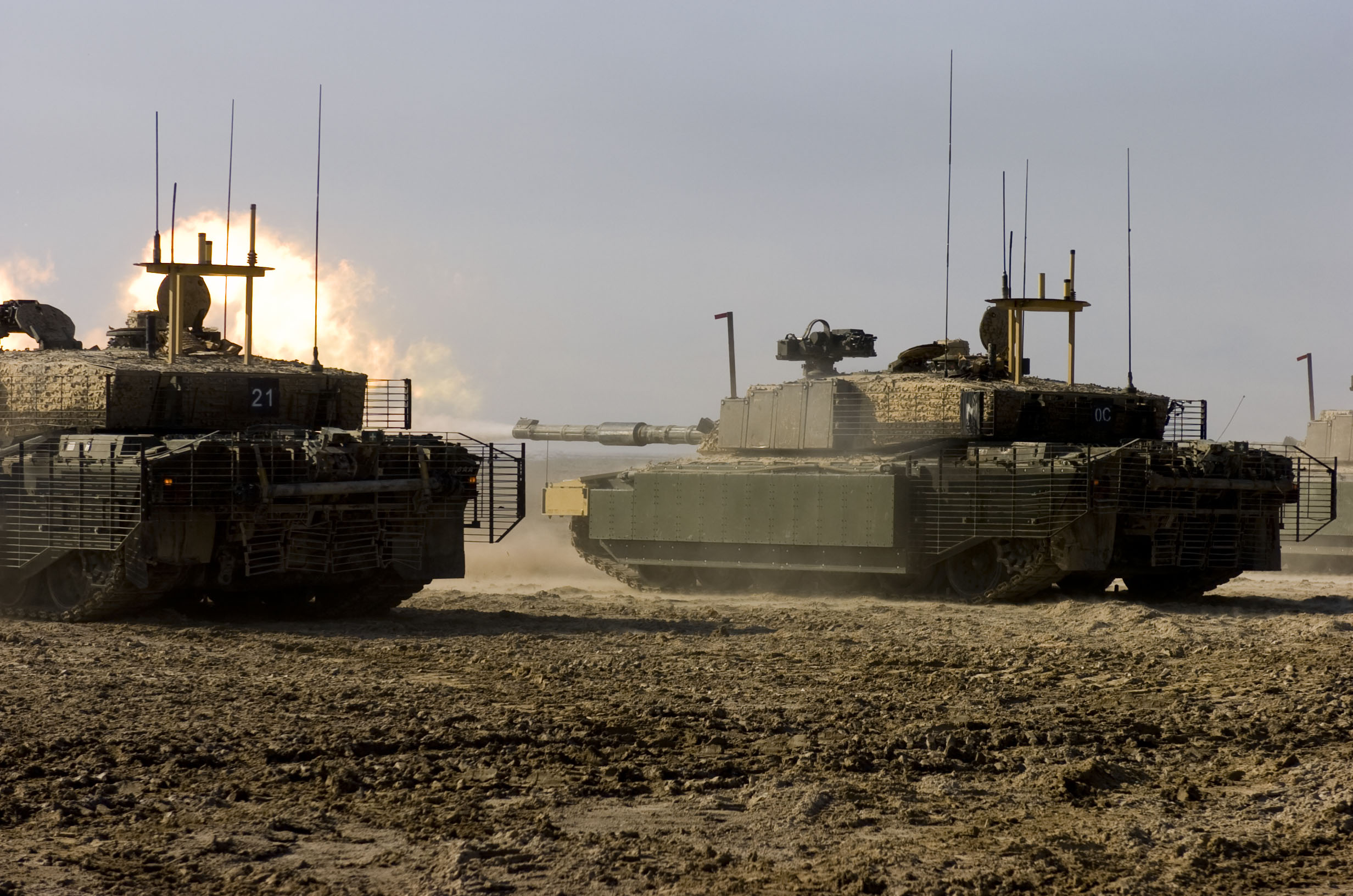 A British Royal Scots Dragoon Guards, Challenger II, main battle tank fires its main gun on a target during a training exercise Nov. 17, 2008, in Basra, Iraq.